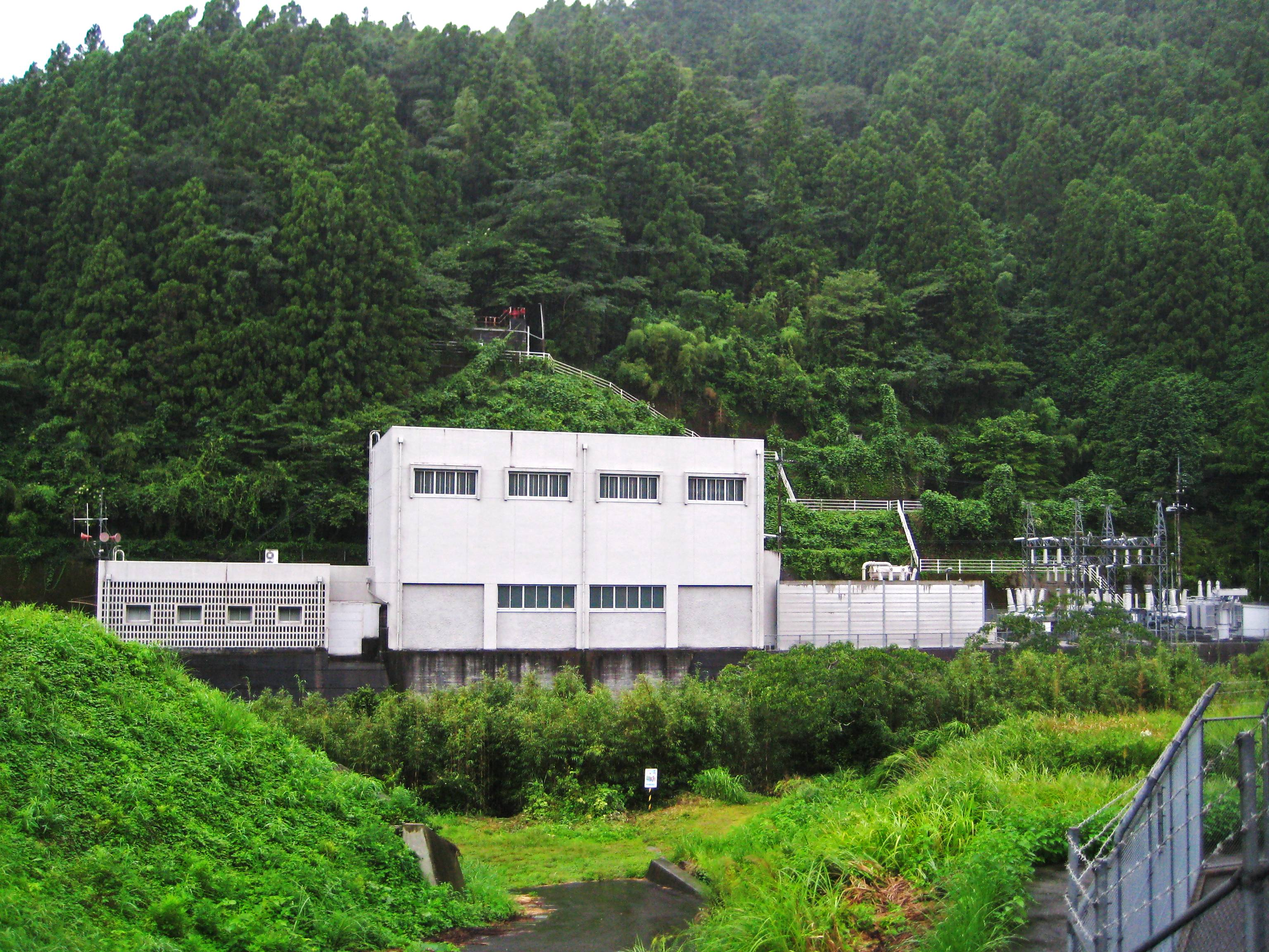 Ananaigawa power station.